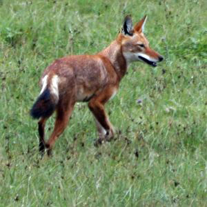 Ethiopian Wolf